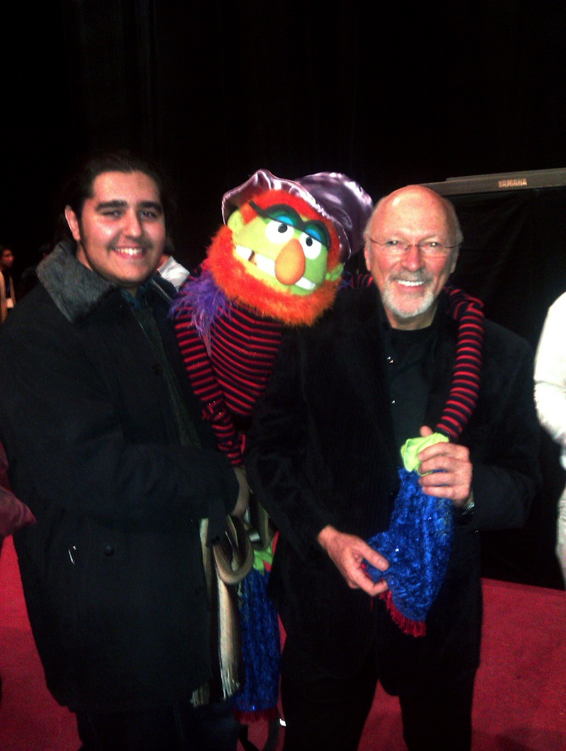 Sam Chegini with Jacques Trudeau, General Secretary, UNIMA